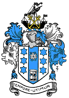 Arms of the Metropolitan Borough of Greenwich granted 15th July 1903 by the College of Arms